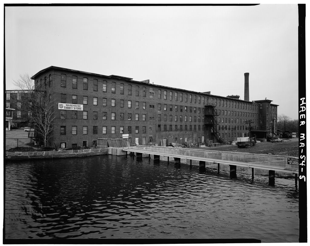 HAER No. MA-54; Boston Manufacturing Company, Waltham, Massachusetts, the site of the true beginning of the Industrial Revolution in America in 1813.